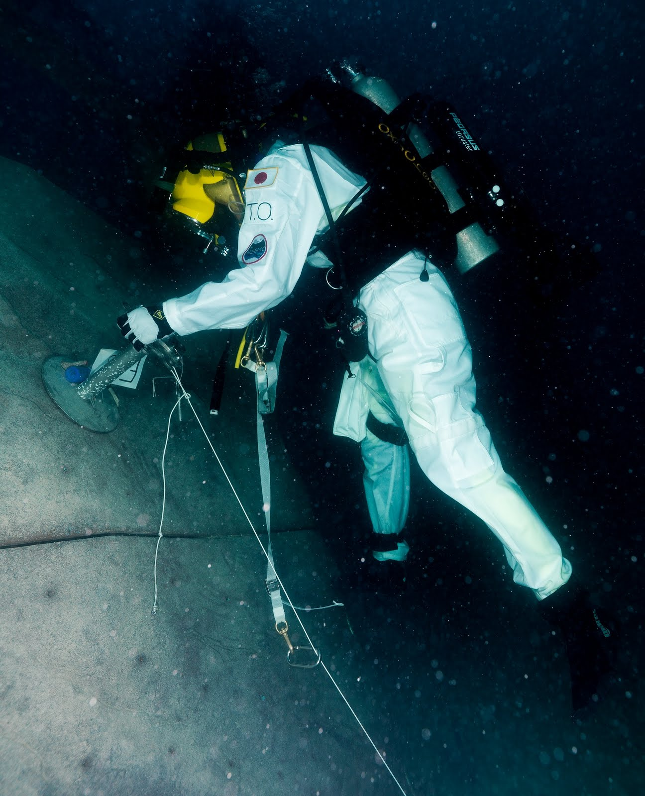 JAXA astronaut Takuya Onishi performing EVA on simulated asteroid during NEEMO 15 underwater exploration mission in October 2011. From NASA photo in public domain.